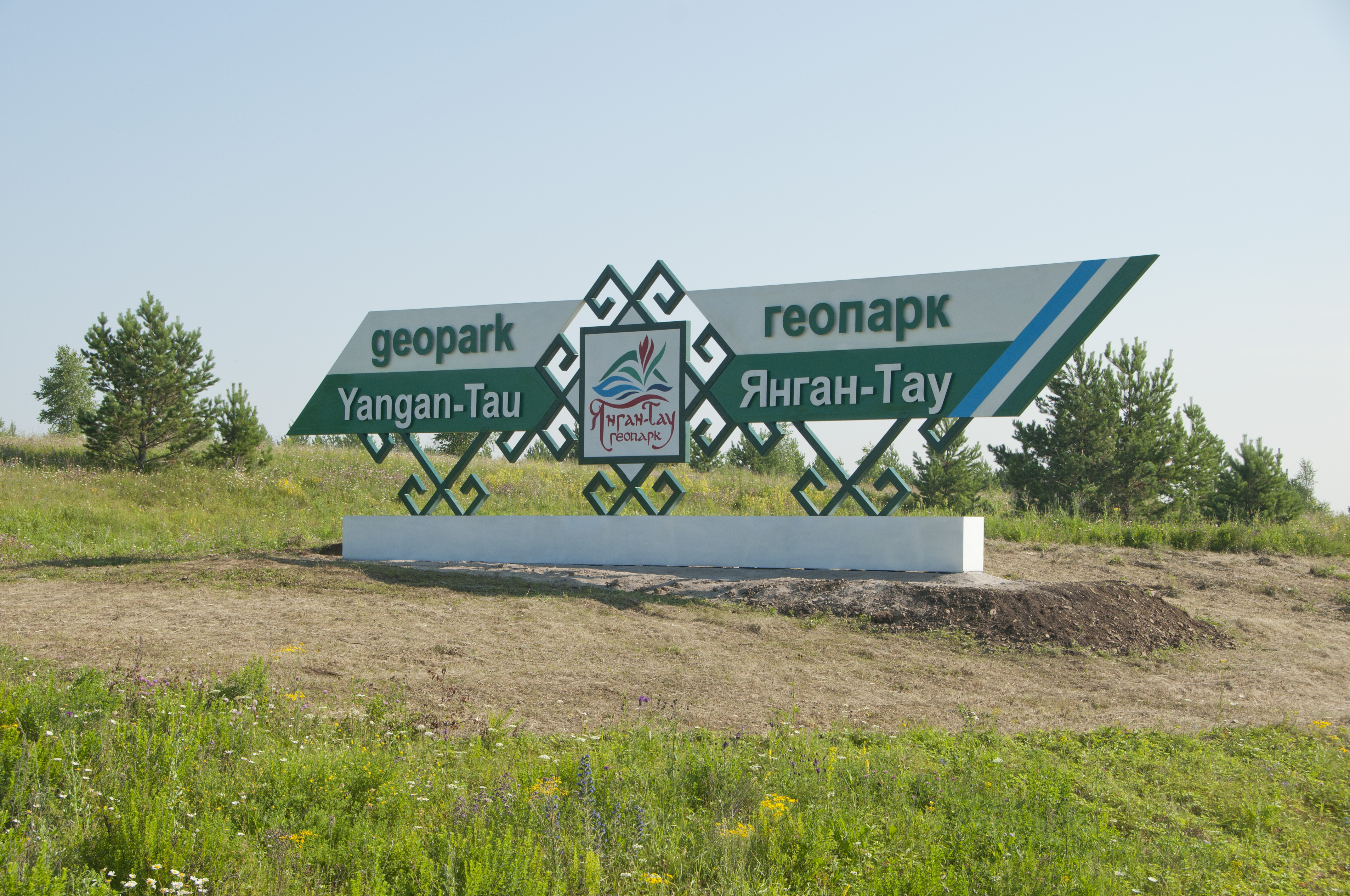 YanganTau Geopark